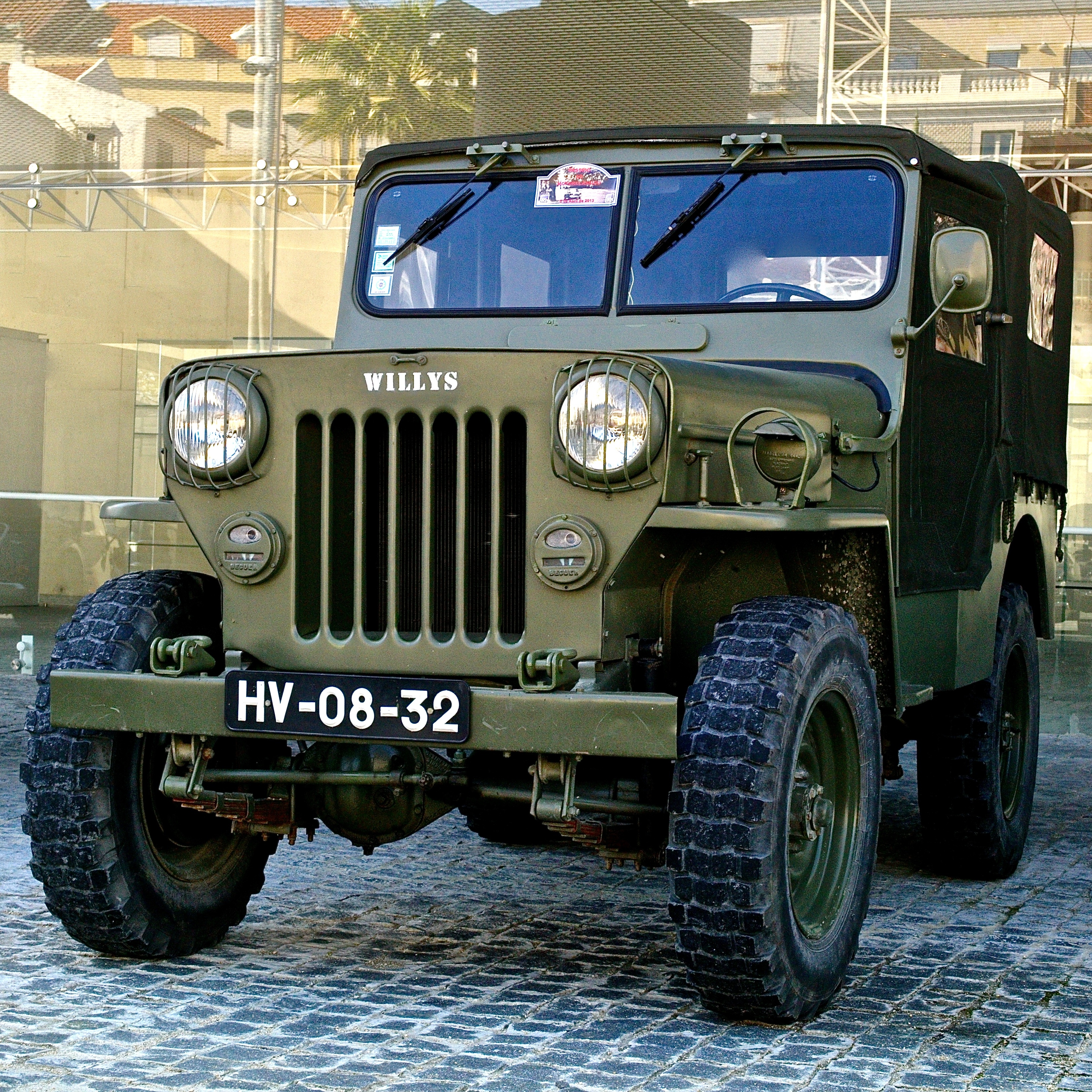 Jeep Willys in Lisbon, Portugal.